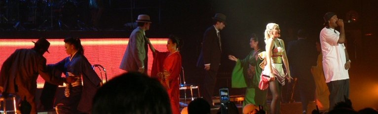 Gwen Stefani and Slim Thug in a performance of "Luxurious" at the Cynthia Woods Mitchell Pavilion in Houston, Texas, United Statesgwen & slim thug